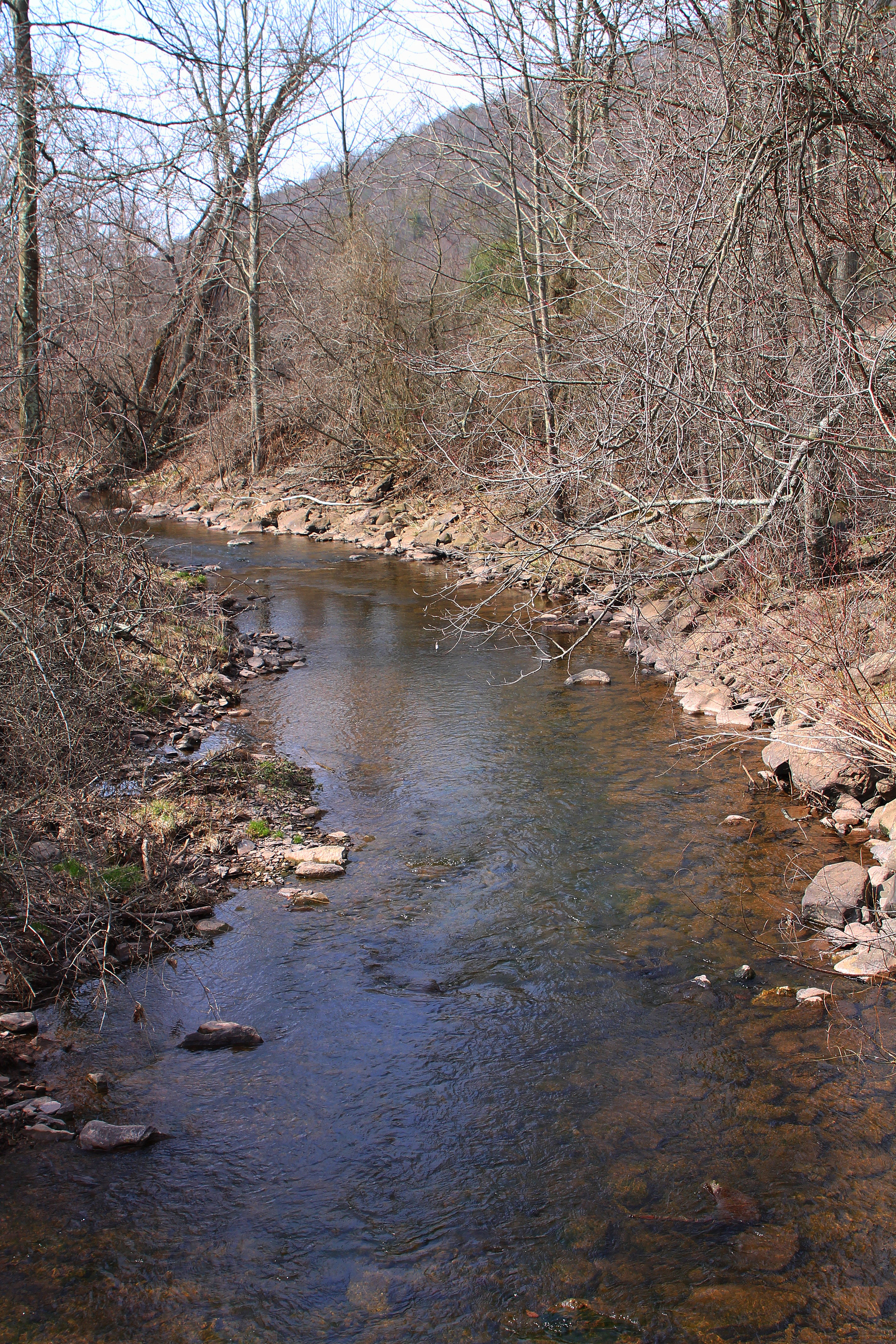 Beaver Run, a tributary of Little Muncy Creek, looking downstream from Beaver Run Road.